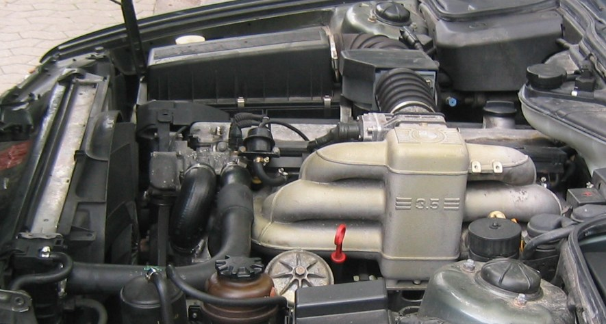 BMW M30B35 engine in an E34 535 from 1988, seen from the left side of the car.